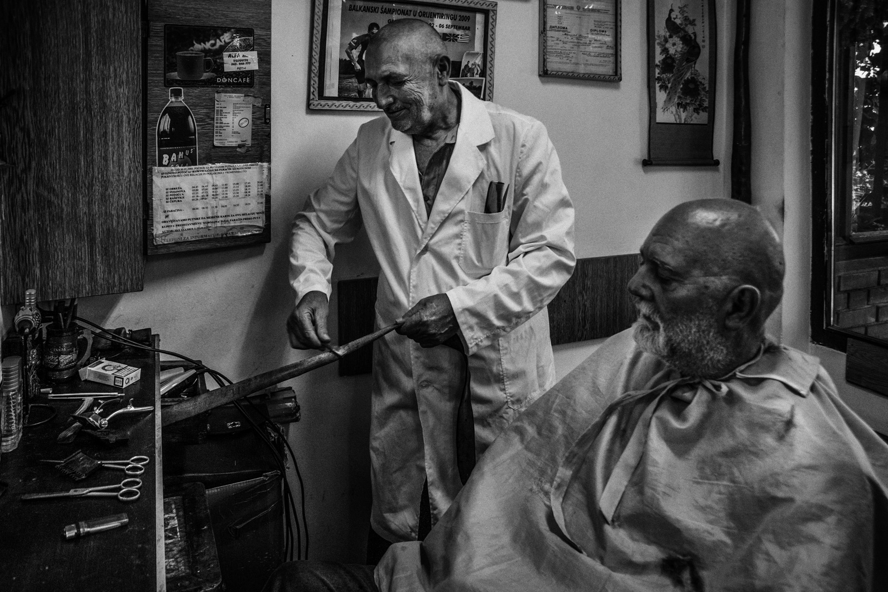 The Barber 2